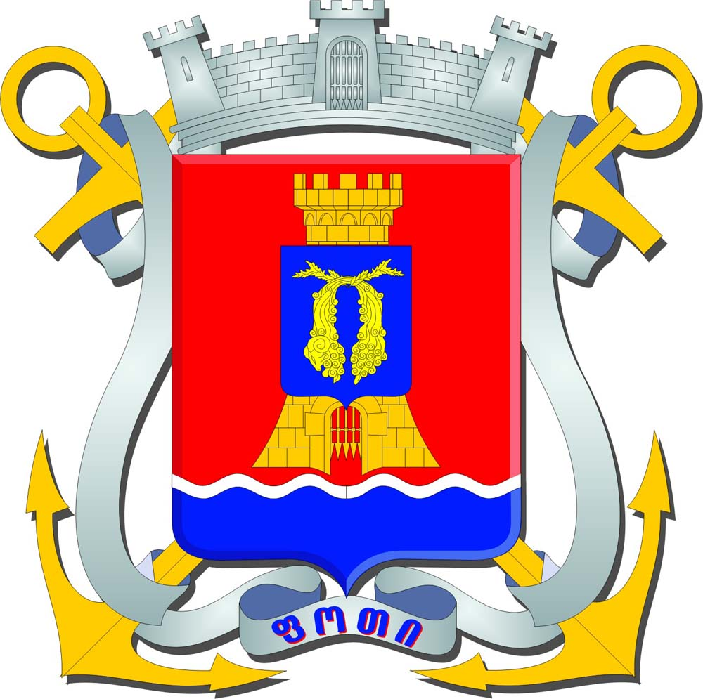 The Poti city coat of arms from 2005